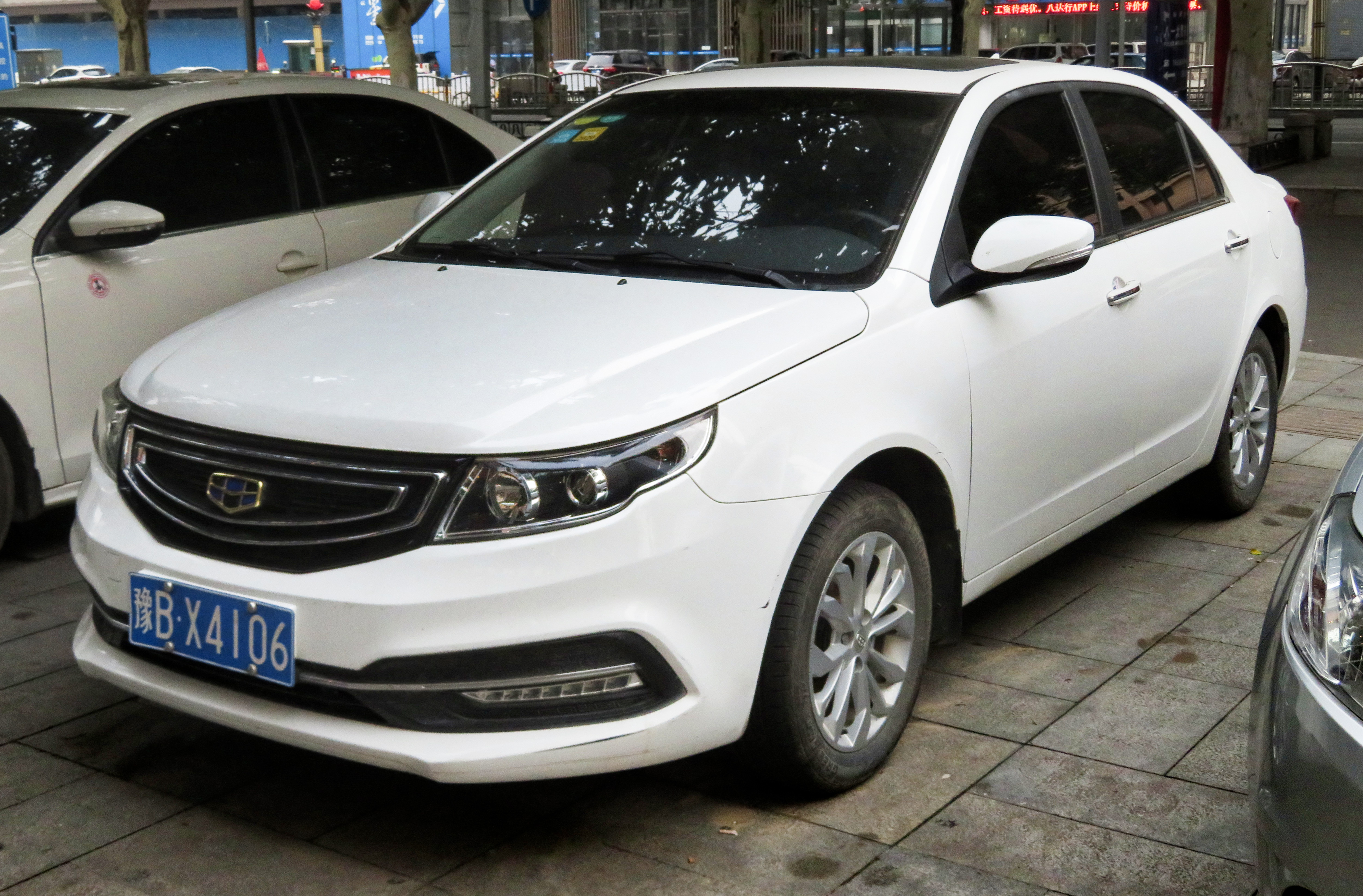 A 2016 Geely Yuanjing (Vision) facelift photographed in Xigong District, Luoyang, Henan province, China